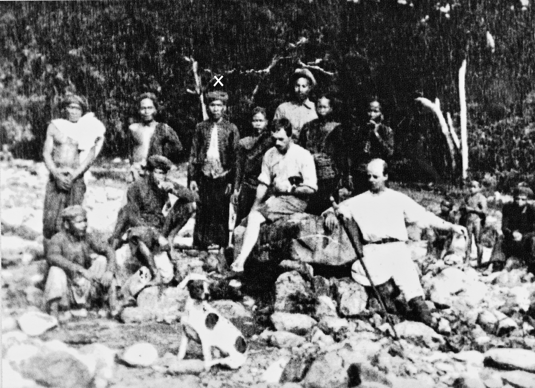 North Borneo Chartered Company: The allegedly only photo of Mat Salleh (marked with an "X")